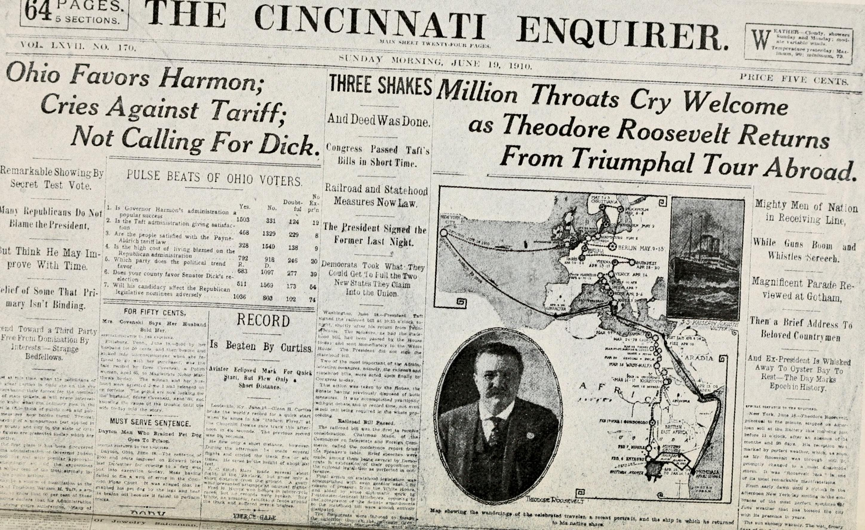 Title: Essentials in journalism; a manual in newspaper making for college classes Year: 1912 (1910s) Authors: Harrington, Harry Franklin, 1882-1935 Frankenberg, Theodore Thomas, b. 1877 Subjects: Journalism Publisher: Boston, New York (etc.) Ginn and Company Text Appearing Before Image: inm nm si 51, hI—1 P3X H Text Appearing After Image: r^ _■ (J) M , - . wg /. \ O H --co jliiii^iniif;t!5iijiiii!iim if III h liii iiiyiii j 1 - ■ • -• is?, ; • *.;■- ■ i . ^ , 5 -■ . I—c X W